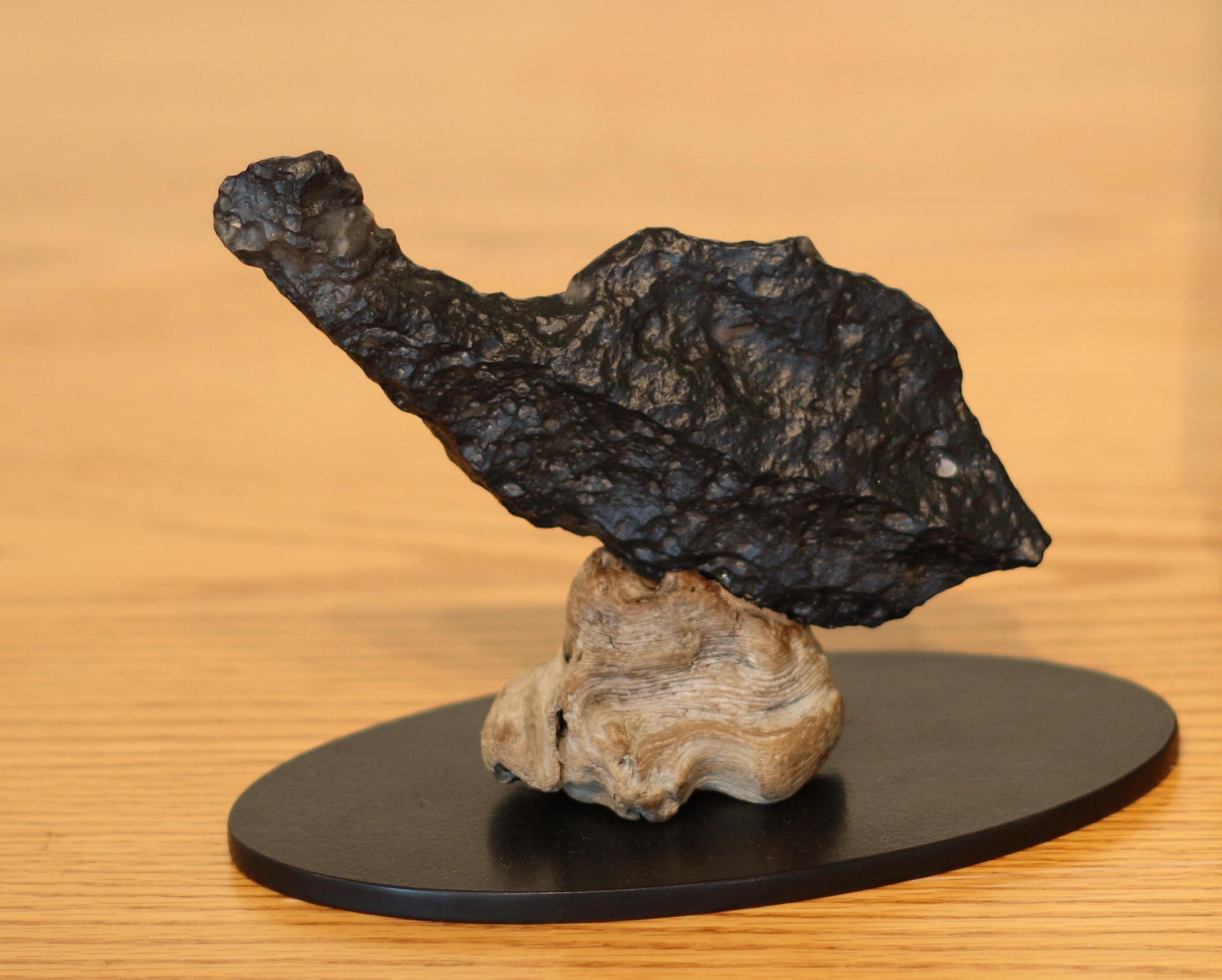 A Fish-Shaped Stone collected in the Yuha Desert in California, on display at the National Bonsai & Penjing Museum at the United States National Arboretum